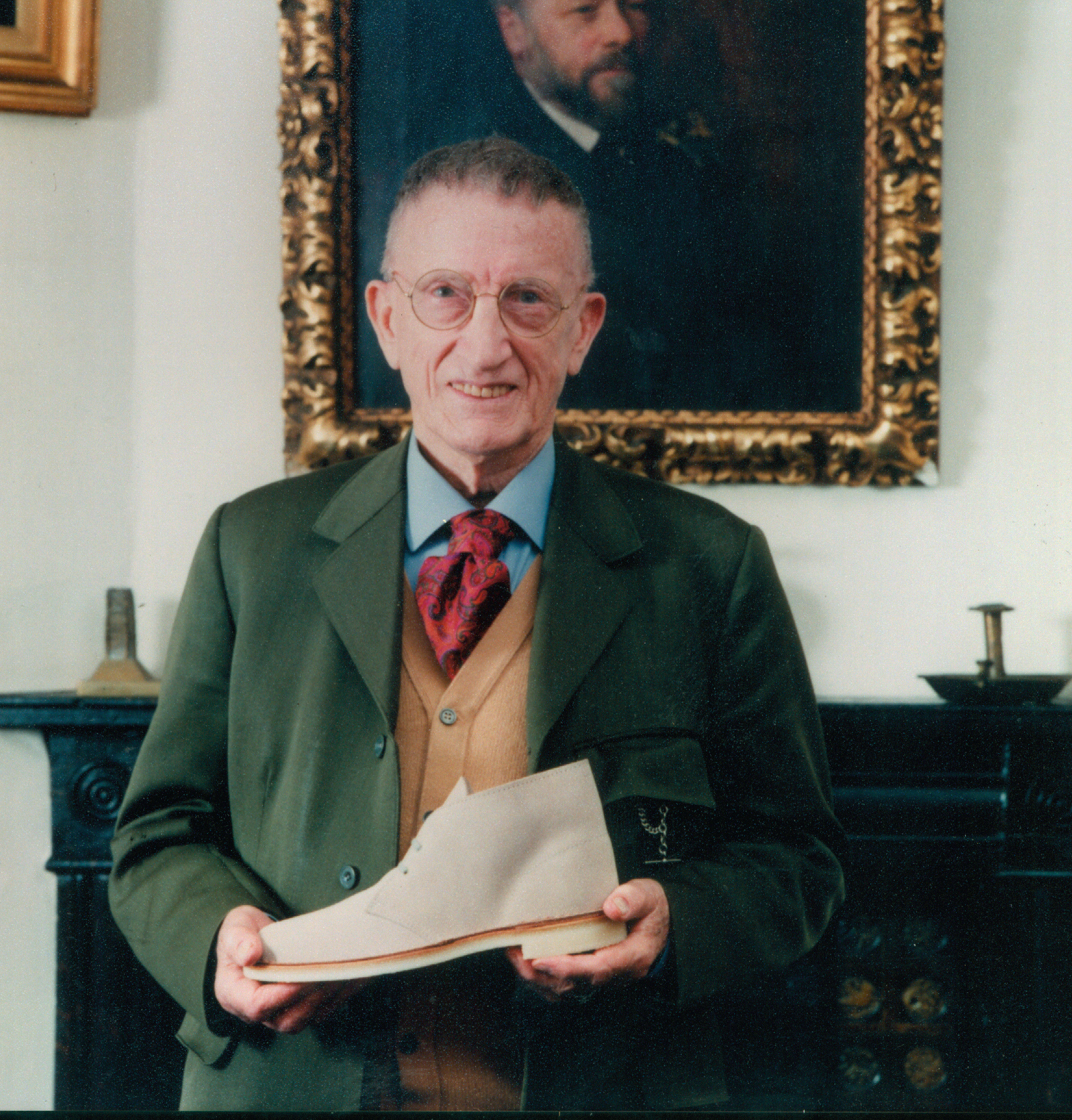 Nathan Clark, the inventor of the Desert Boot, holding a Desert Boot product.